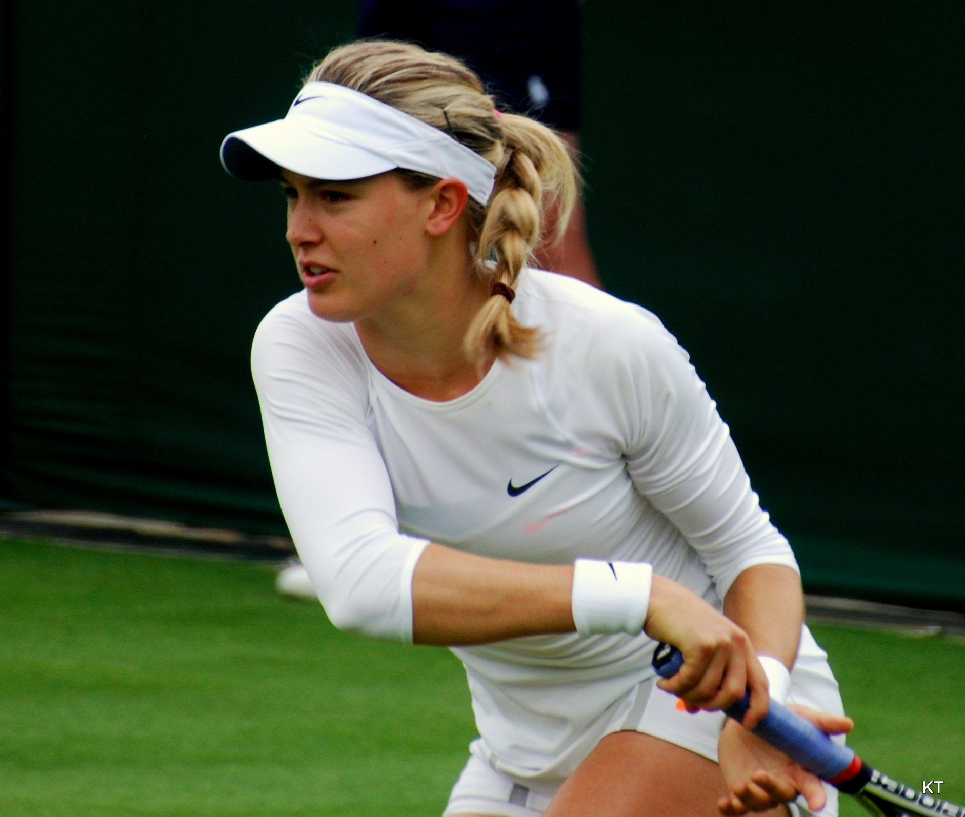 Eugenie Bouchard at the 2013 Wimbledon Championships